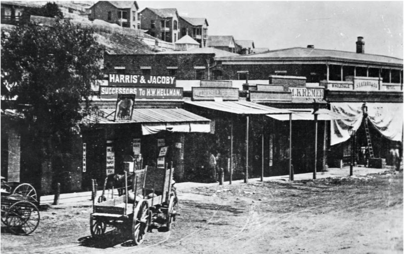 Old Downey Block around 1870, retailers include Harris and Jacoby, Maurice Kremer